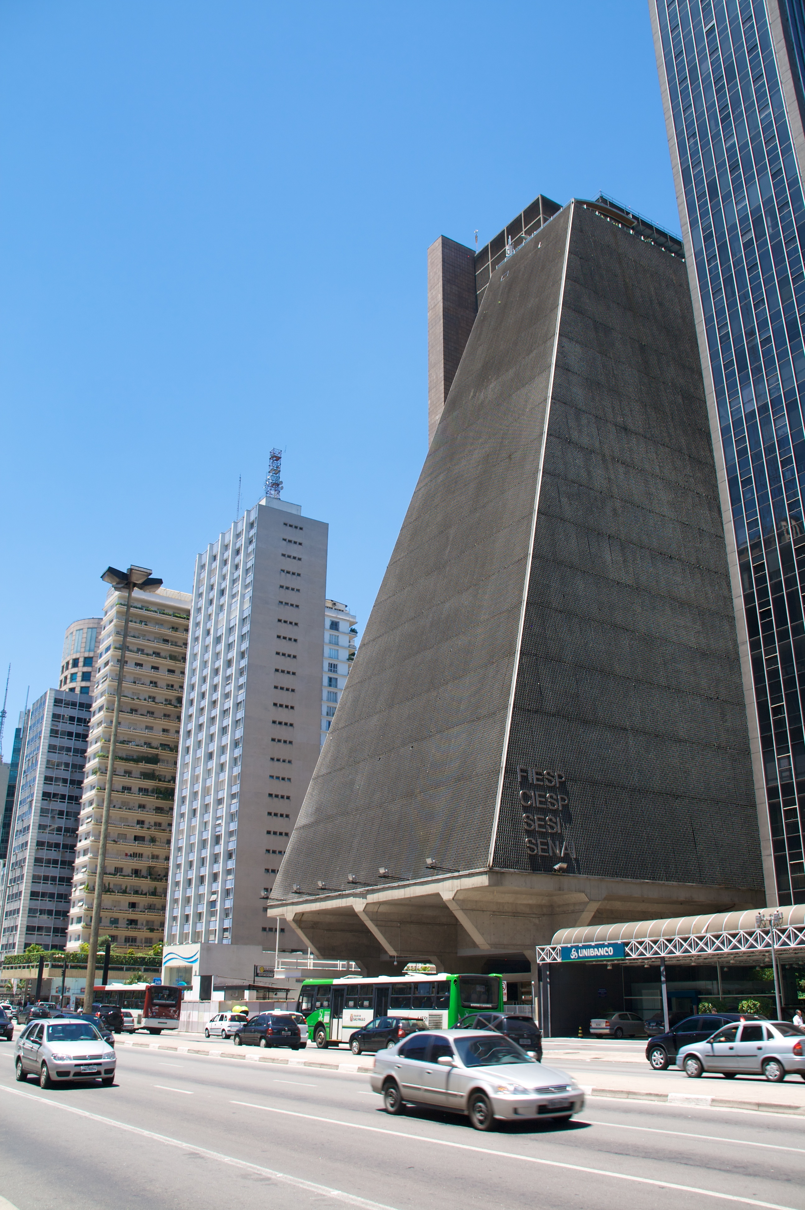 by Egil Fujikawa Nes for Connection Consulting